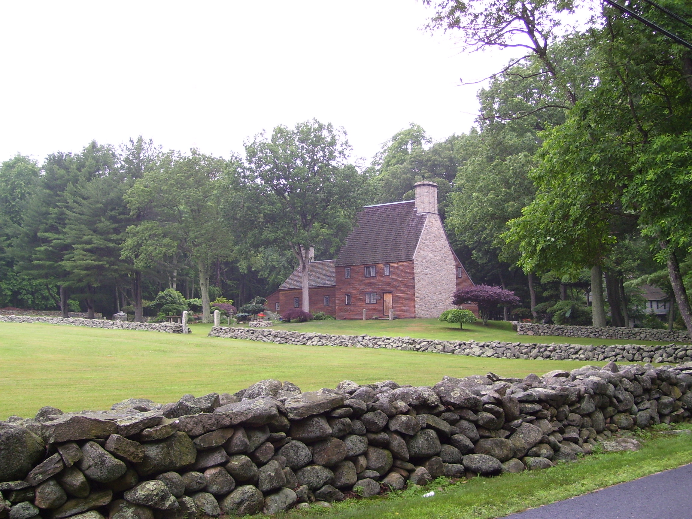 This is my 2008 photo of the Armand Lamontage stone ender in Scituate, Rhode Island.